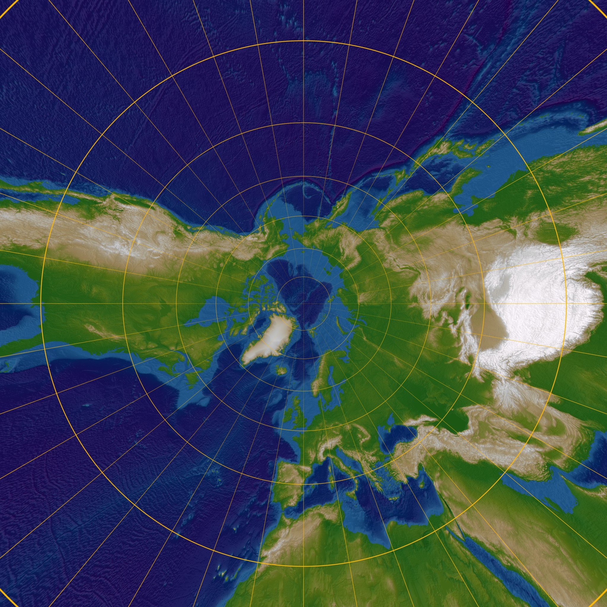 Polar gnomonic projection. Map center is at 0° E, 90° N.